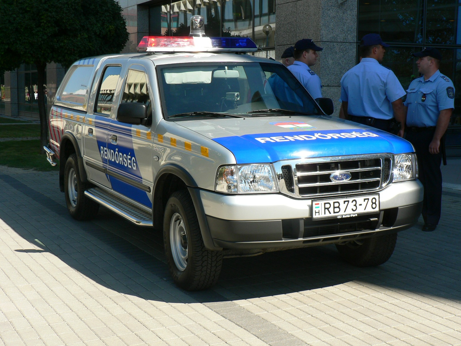 Ford Ranger rendőrautó